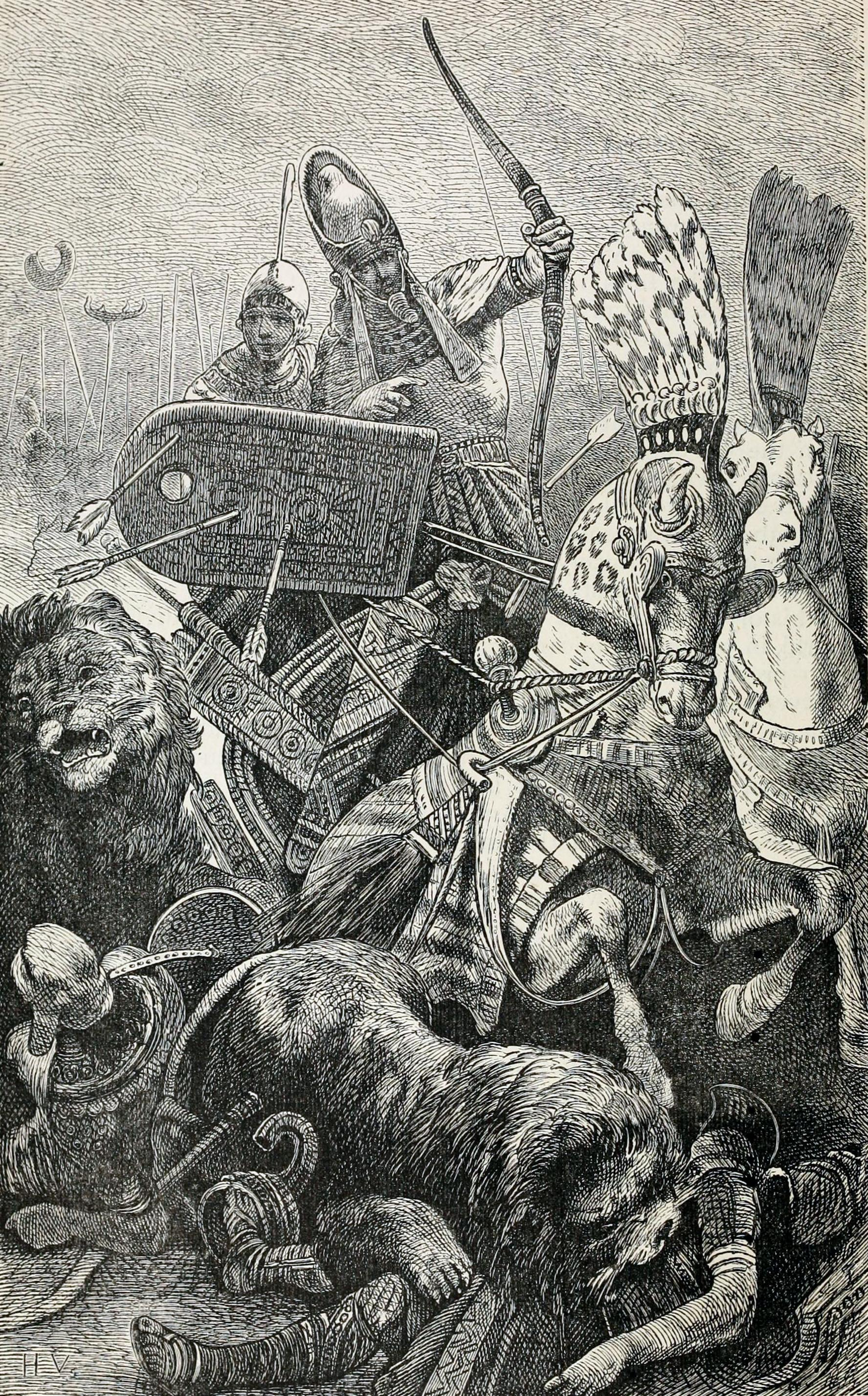 The illustrated history of the world for the English people. From the earliest period to the present time, ancient-mediaeval-modern. With many original high-class engravings Published [1881?-84?] Volume 1 Publisher New York Ward, Lock Pages 928